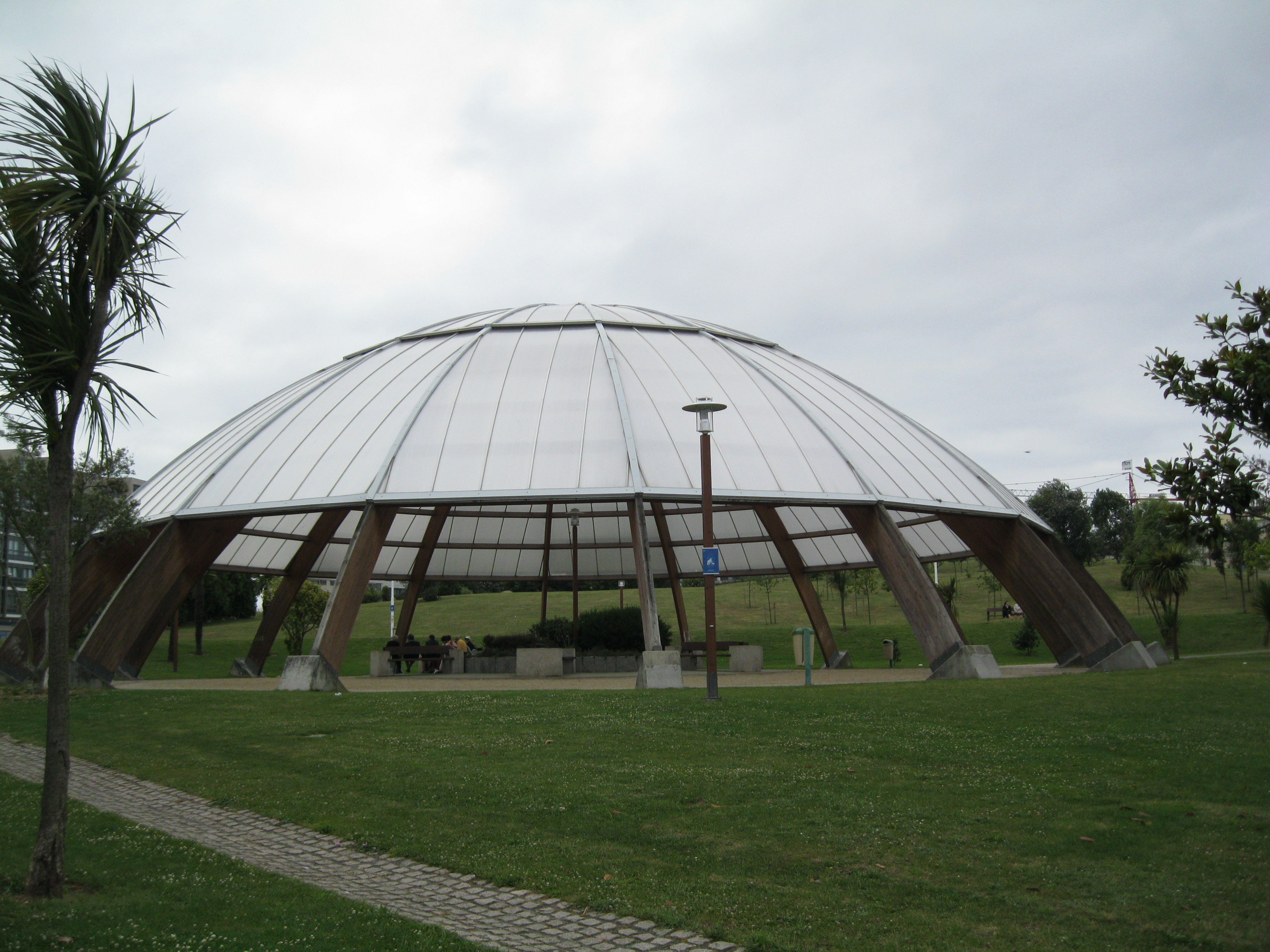 Dome in the park of the neighborhood of Eiris, A Coruña, Galicia, Spain.